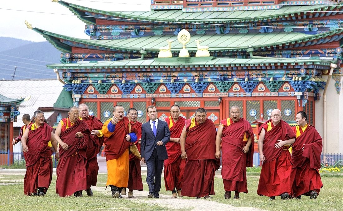 VERKHNYAYA IVOLGA, BURYATIA. Visiting Ivolga Datsan.